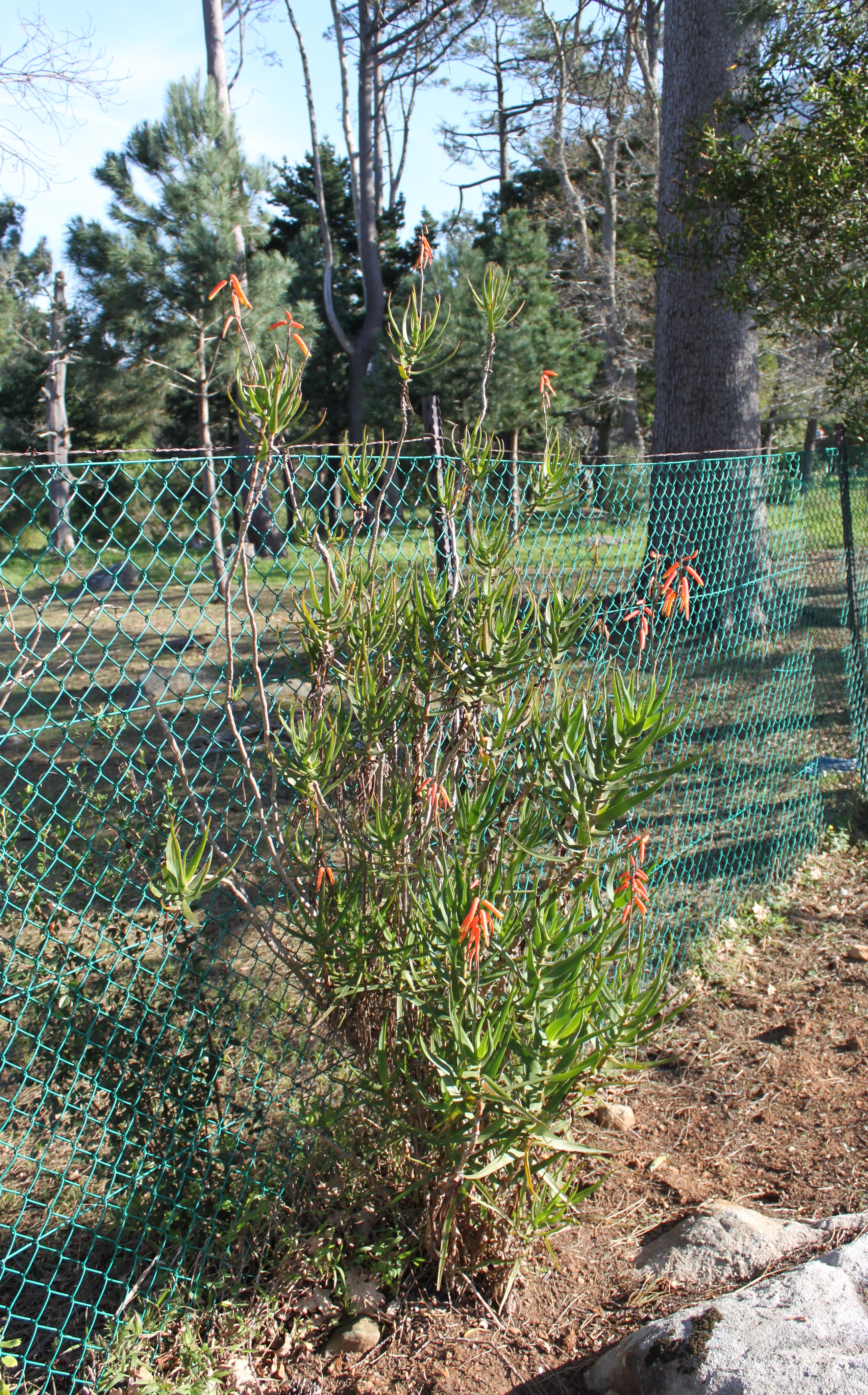 Aloe gracilis. Climbing aloe growing up fence in South African park.